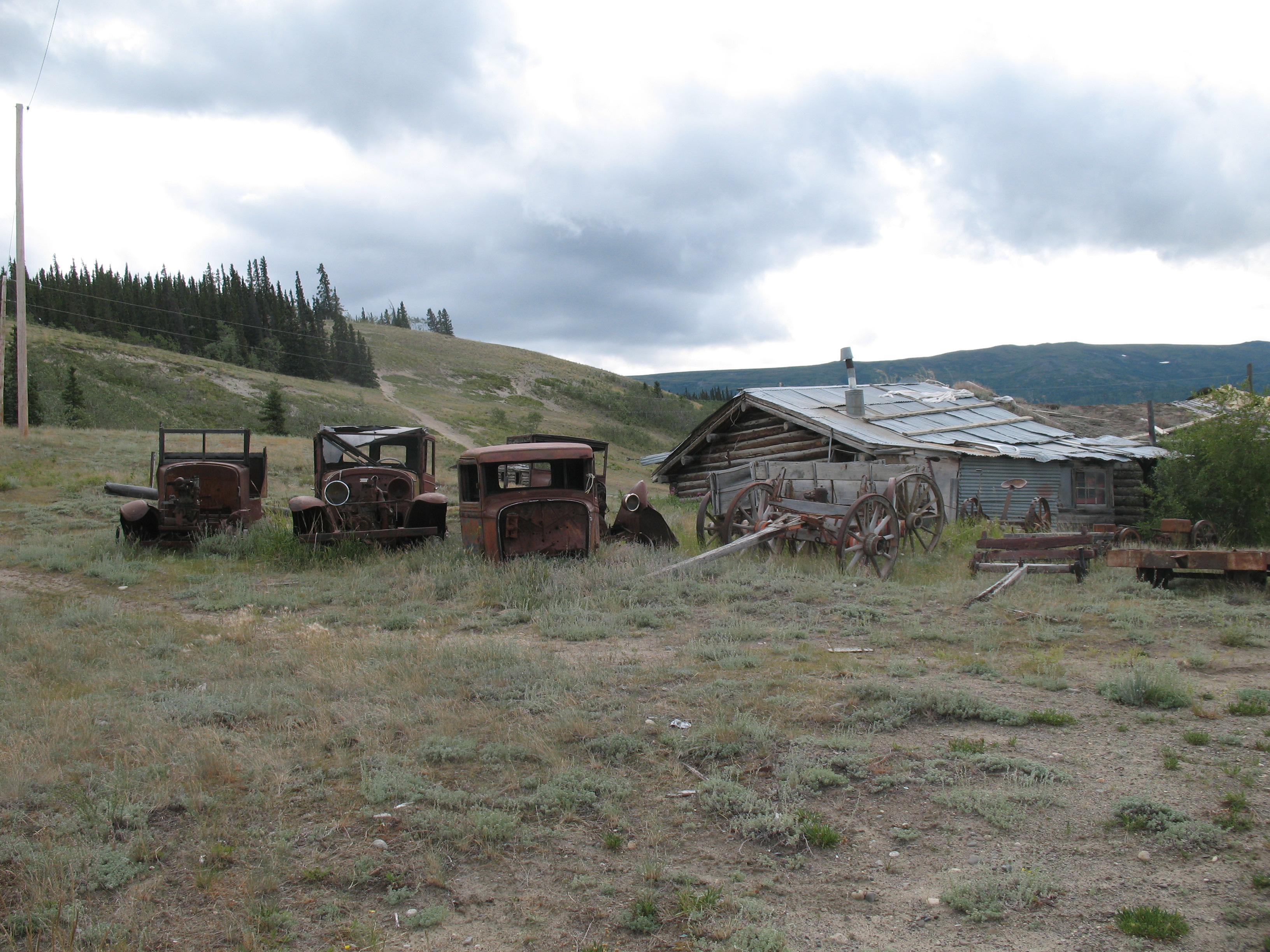 Champagne, Yukon, cars left behind after 1942